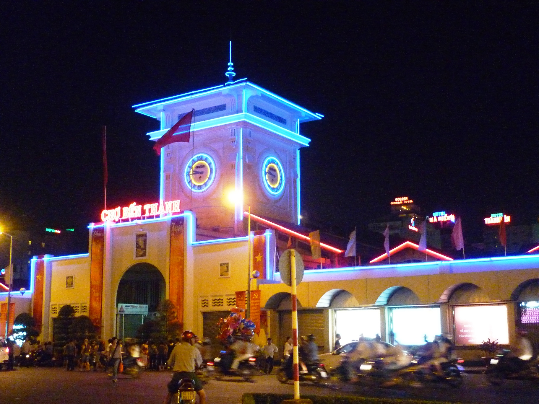 Southern gate of Ben Thanh market in colourful lights